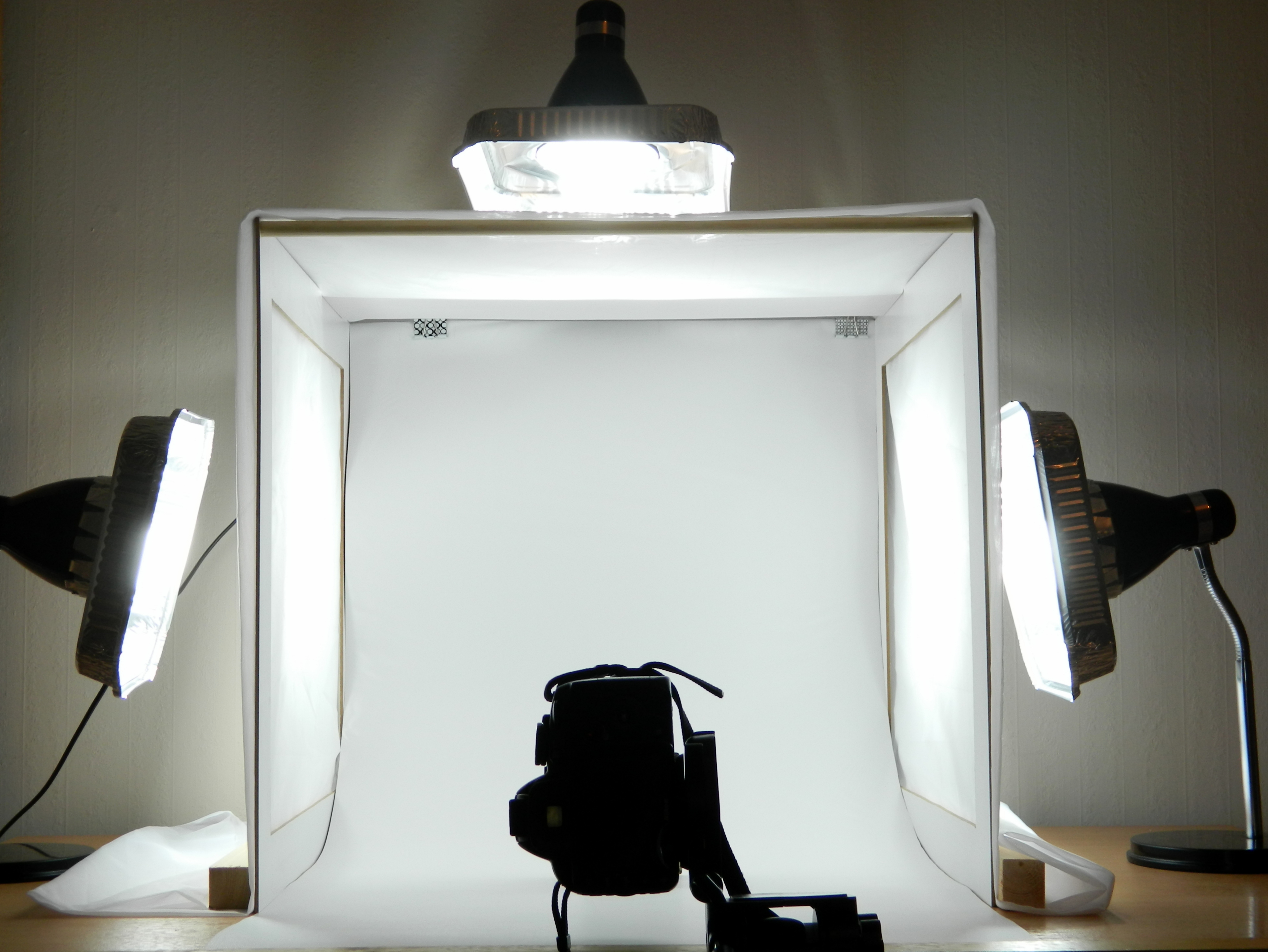 After looking at light tents, I decided to make one myself. Some of the reviews on the cheaper kits mentioned they were flimsy and the lighting supplied with them must only be run for ten minutes maximum, followed by a break of thirty minutes to avoid overheating. I used items all found around the home: wood for the frame (I could have used a cardboard box with the sides cut out), a fine white plain net curtain, some lining paper for the infinity curve, drawing pins and bulldog clips to hold everything together and three anglepoise lamps fitted with 23W (100W equivalent) 6500k low energy spiral daylight bulbs. I tried white tracing paper, a thin white cotton bed sheet and some horticultural fleece for the sides, which all worked, but I chose the net curtain in the end as it seemed to diffuse the light better without cutting down on the brightness. I adapted some foil food containers to make reflectors for the lamps, which made the light brighter. These lamps don’t get so hot and can be left on for longer periods. I have read that a silver photographic light reflector laid on top of the box also works, cutting down on the need for three lamps, but I have not tried this myself. As I will not always want a white background, I have found an assortment of material and wallpaper off cuts to use for the infinity curve. Although not as professional as the more expensive kits on the market, I was happy with the end result and am looking forward to taking some indoor shots on these cold dark winter evenings.